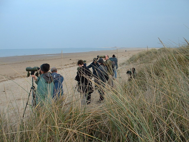 Dune edge on the Norfolk coast. Birdwatchers at the Titchwell bird reserve, Norfolk.